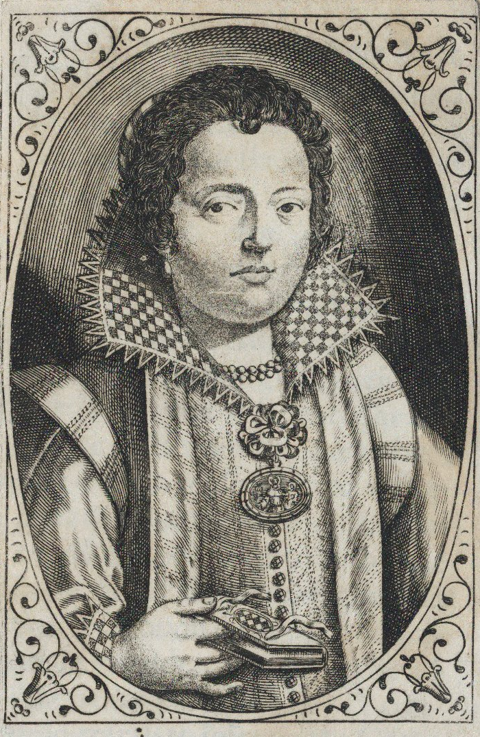 Collection: Folger Shakespeare Library Digital Image Collection Collection Folger Shakespeare Library Digital Image Collection Collection Source Title: Il teatro delle Glorie della Signora Adriana Basile. Alla virtu di lei dalle cetre de gli Ansioni di questo secolo fabricato, [ed. by Domizio Bombarda]. CD_Title Il teatro delle Glorie della Signora Adriana Basile. Alla virtu di lei dalle cetre de gli Ansioni di questo secolo fabricato, [ed. by Domizio Bombarda]. Source Title Source Created or Published: [1628] Imprint [1628] Source Created or Published Physical Description: image opposite p. 14 Page_Numbers image opposite p. 14 Physical Description Source Call Number: 252401 Call_Number 252401 Source Call Number Digital Image File Name: 9214 ROOTFILE 9214 Digital Image File Name Digital Image Type: FSL collection Image_Type FSL collection Digital Image Type Hamnet Bib ID: 112450 Bibrecord001 112450 Hamnet Bib ID Hamnet Holdings ID: 108224